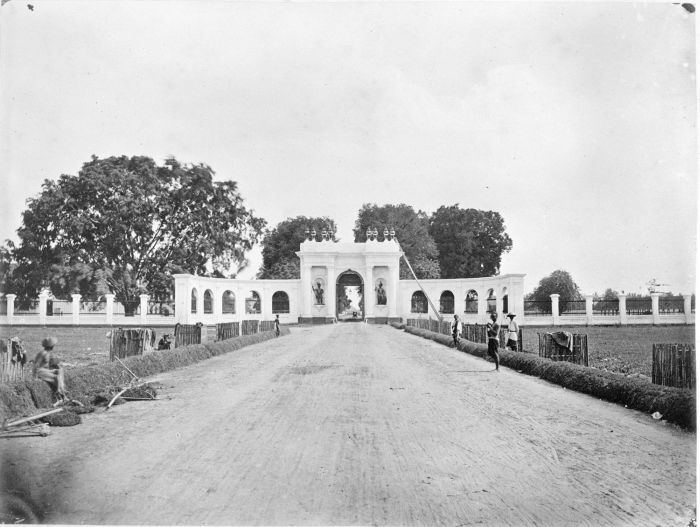 The Amsterdam Gate, Batavia (Jakarta), Indonesia